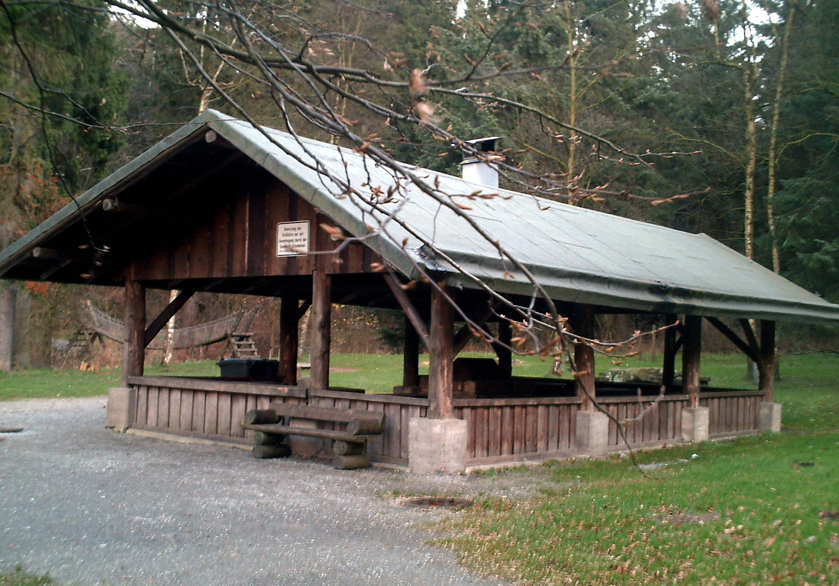 Barbecue cottage near the old scorer hall in Altenbeken / Germany